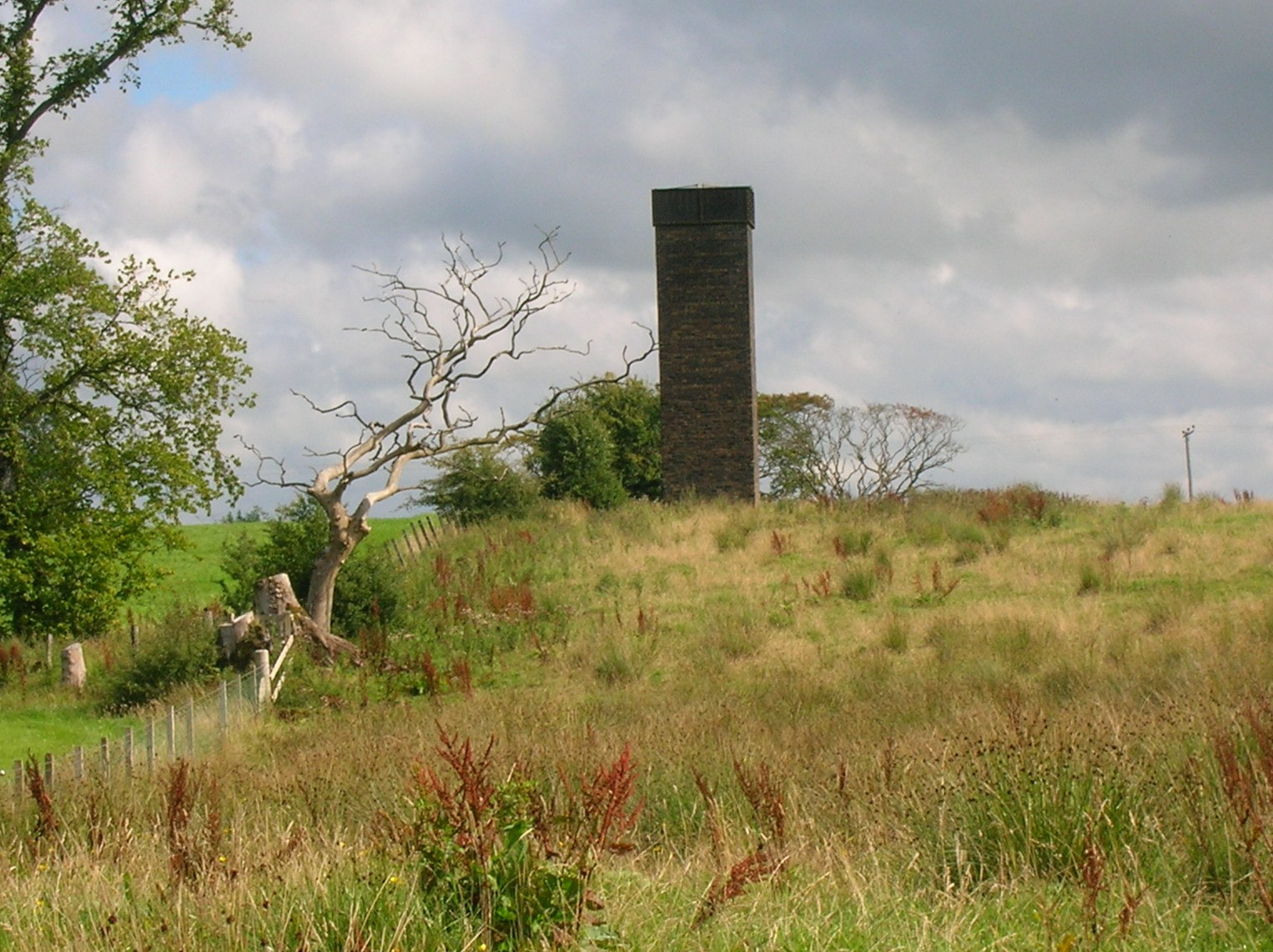 The old Nettlehurst water tower, Barrmill, North Ayrshire, Scotland.